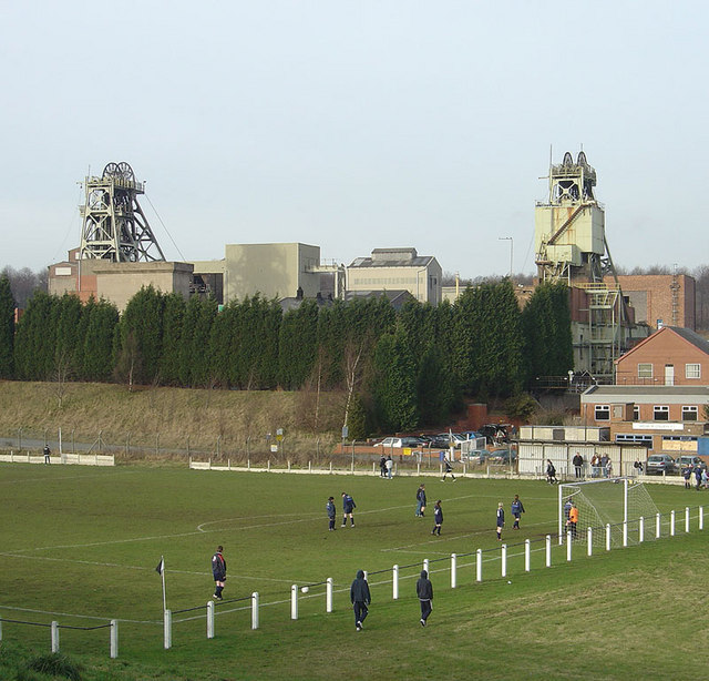 Welbeck Colliery One of the few remaining working collieries in the UK. Ladies' football on the colliery sports ground.